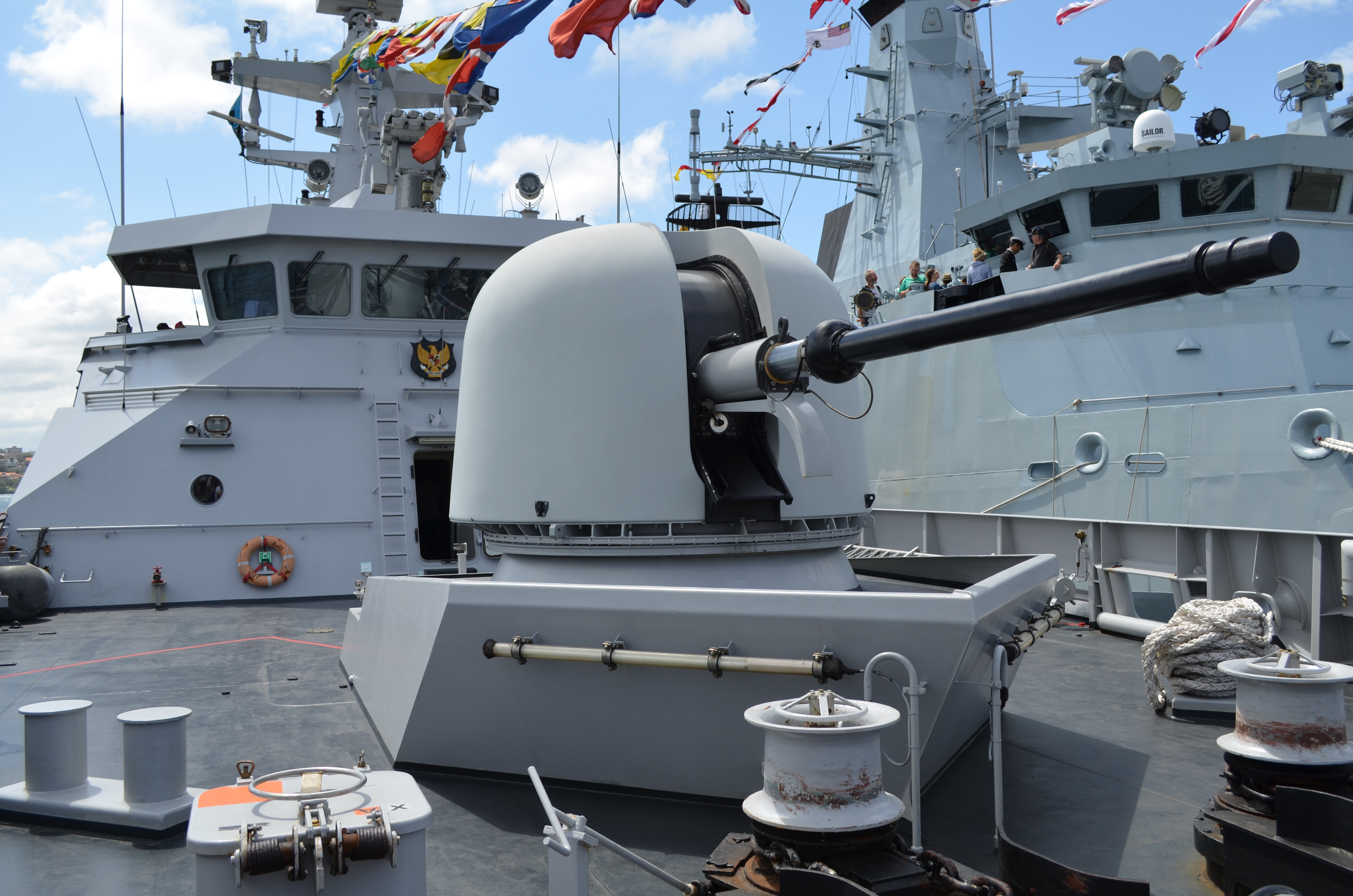 Photographs taken during day 5 of the Royal Australian Navy International Fleet Review 2013. Forward view of the Otobreda 76 mm main gun fitted to the Indonesian corvette Sultan Iskandar Muda. The ship's superstructre and bridge are visible to the rear left of the image